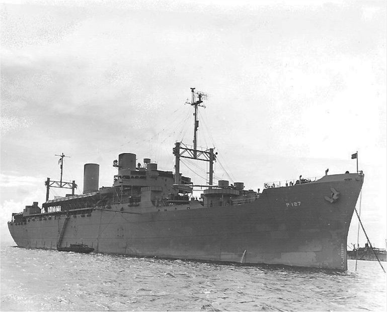 USS Admiral W. S. Sims (AP-127) at anchor, location unknown.